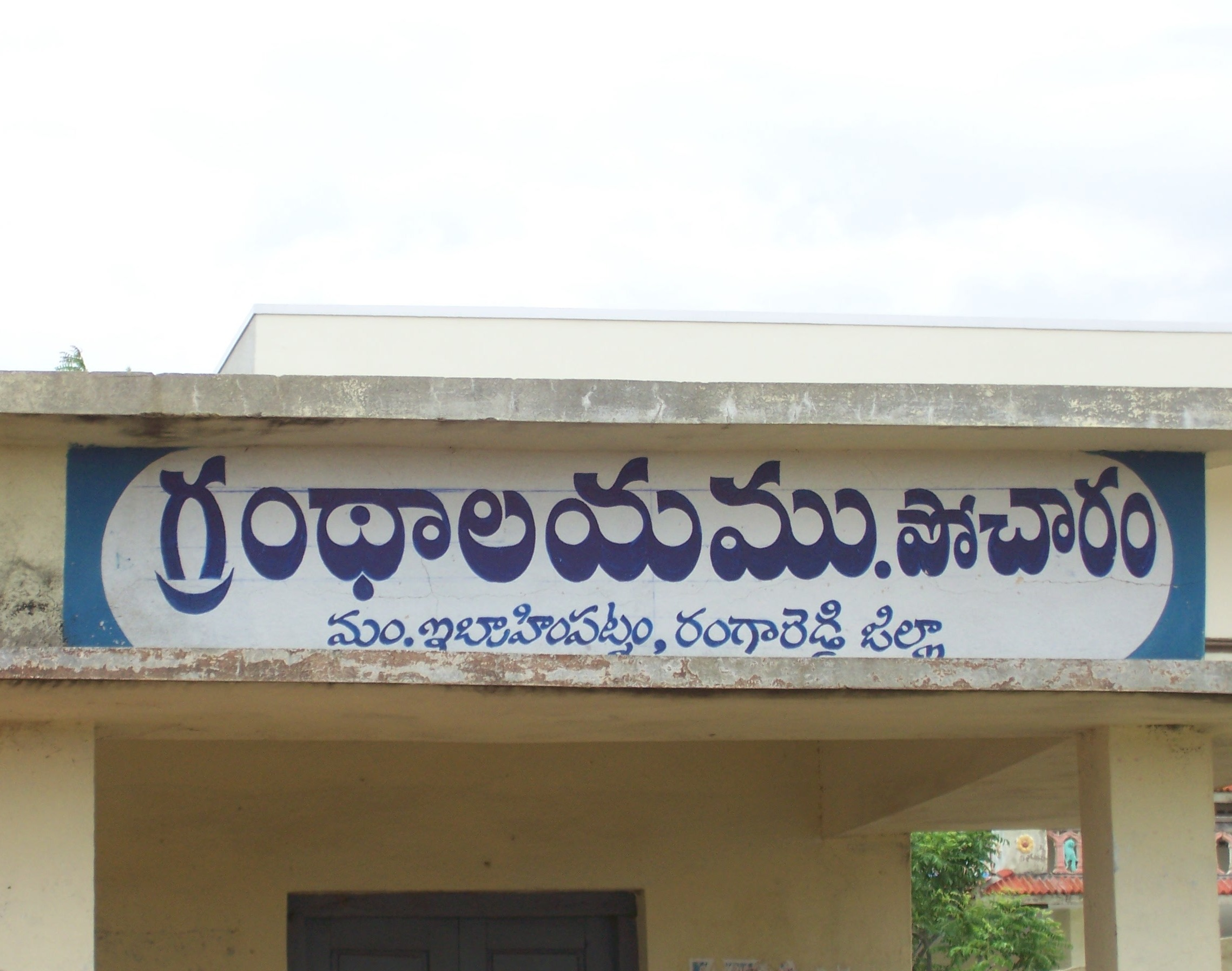 library